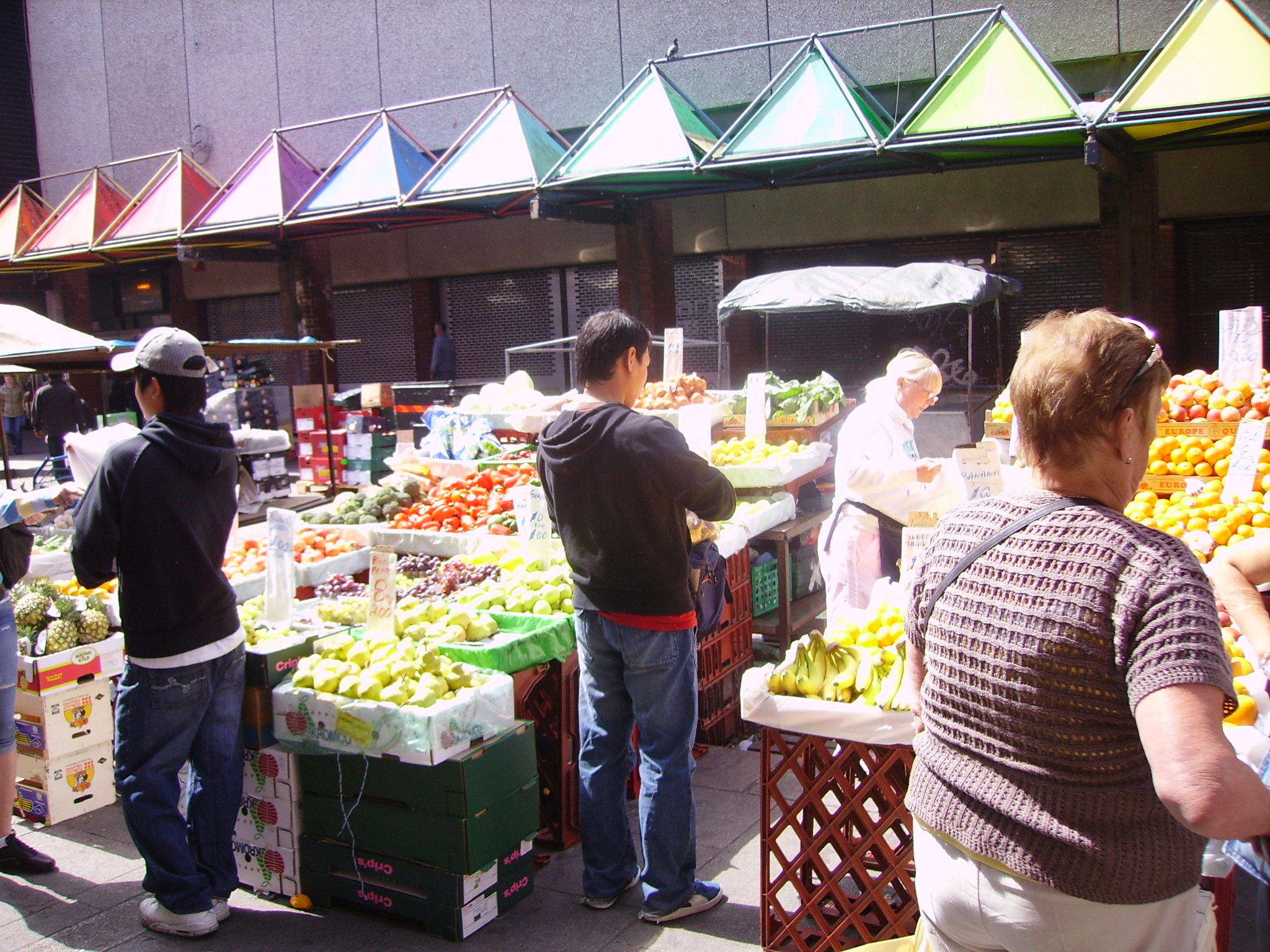 A Fruit Stall in Moore Street Market, Dublin